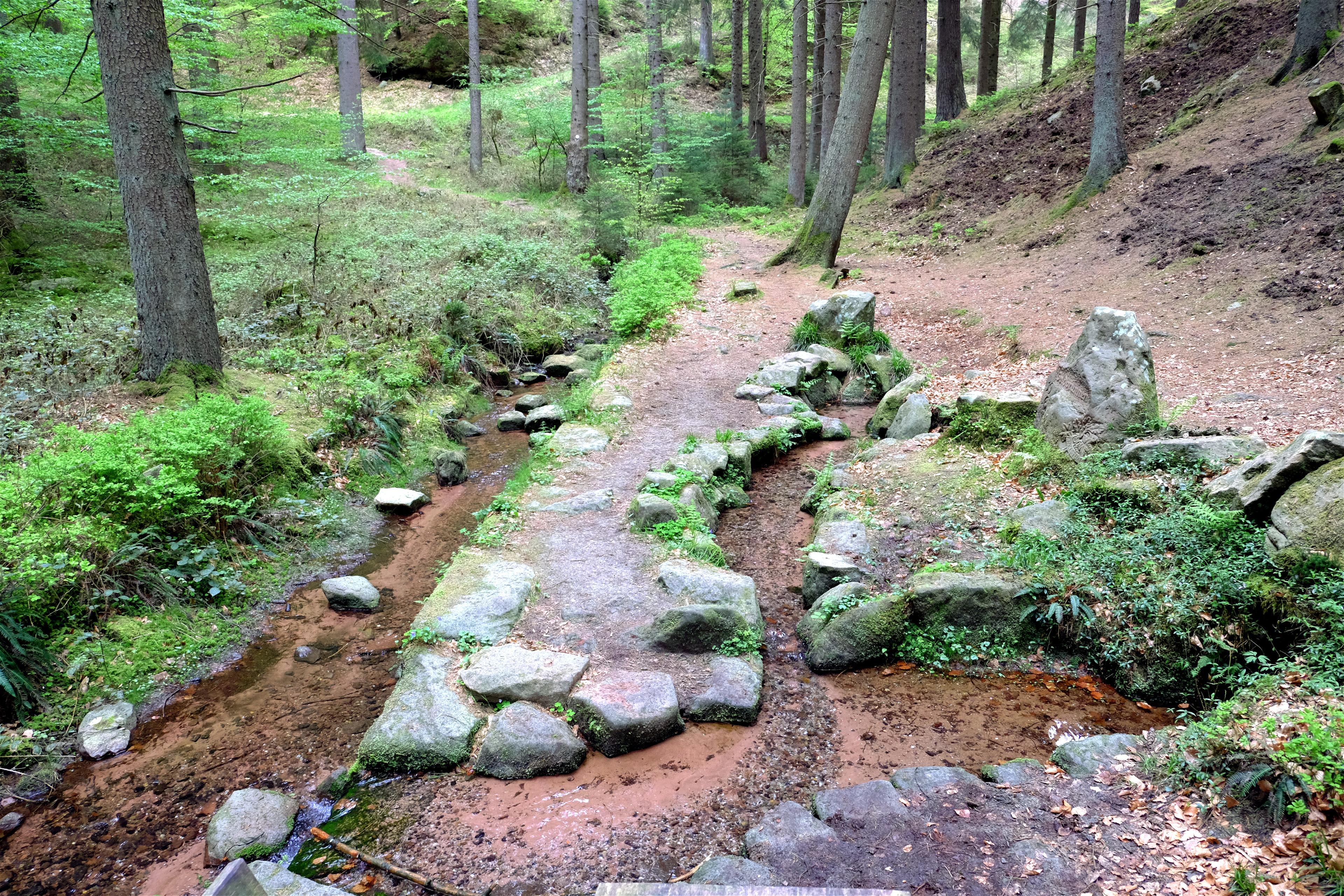 The water from the Goldbrunnen ("gold spring", right) flows into the Breitenbach creek (left)